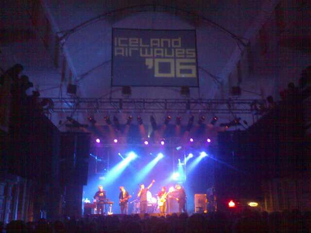 is:Jakobínarína at Iceland Airwaves